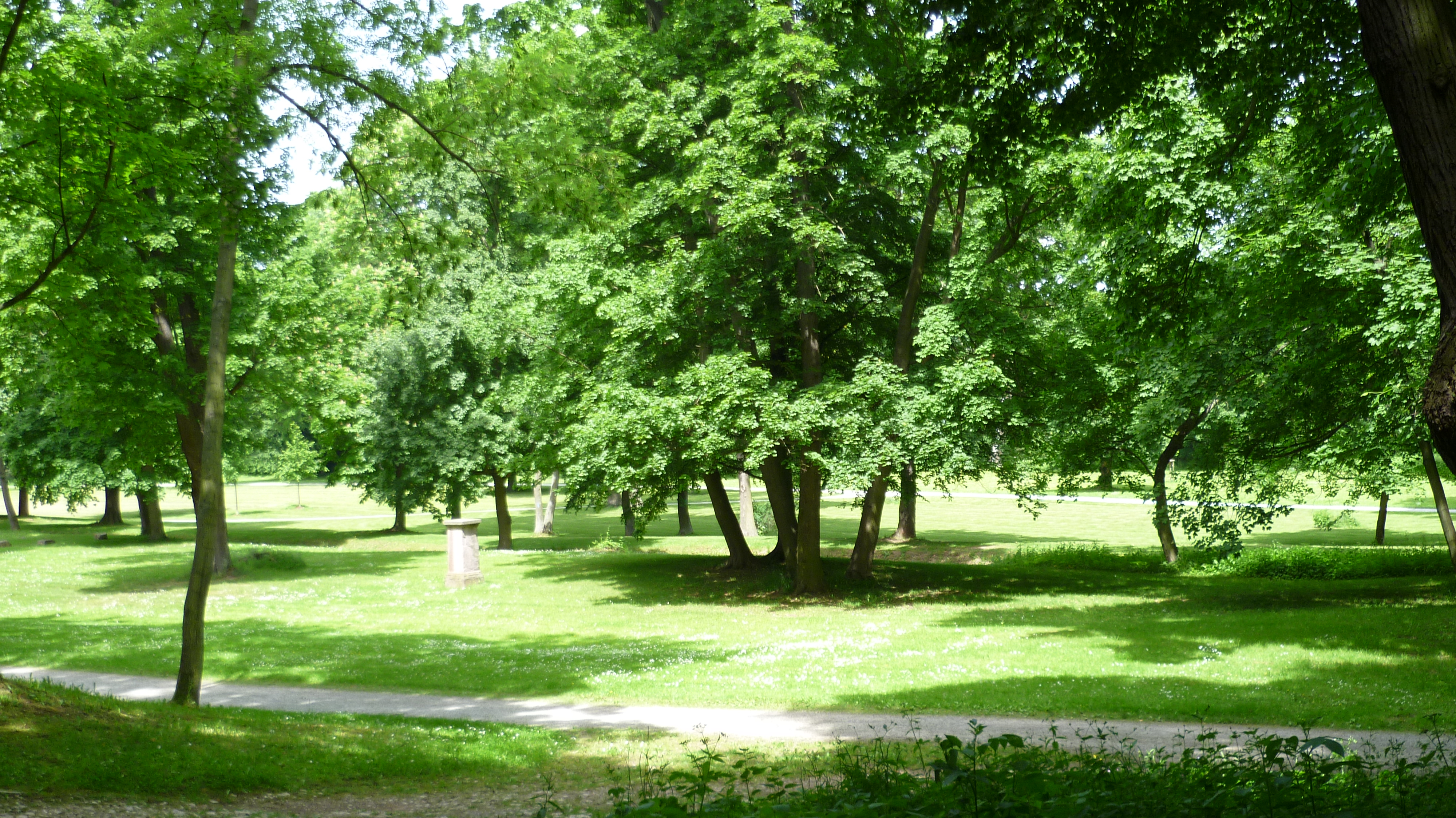 palace park of Sondershausen